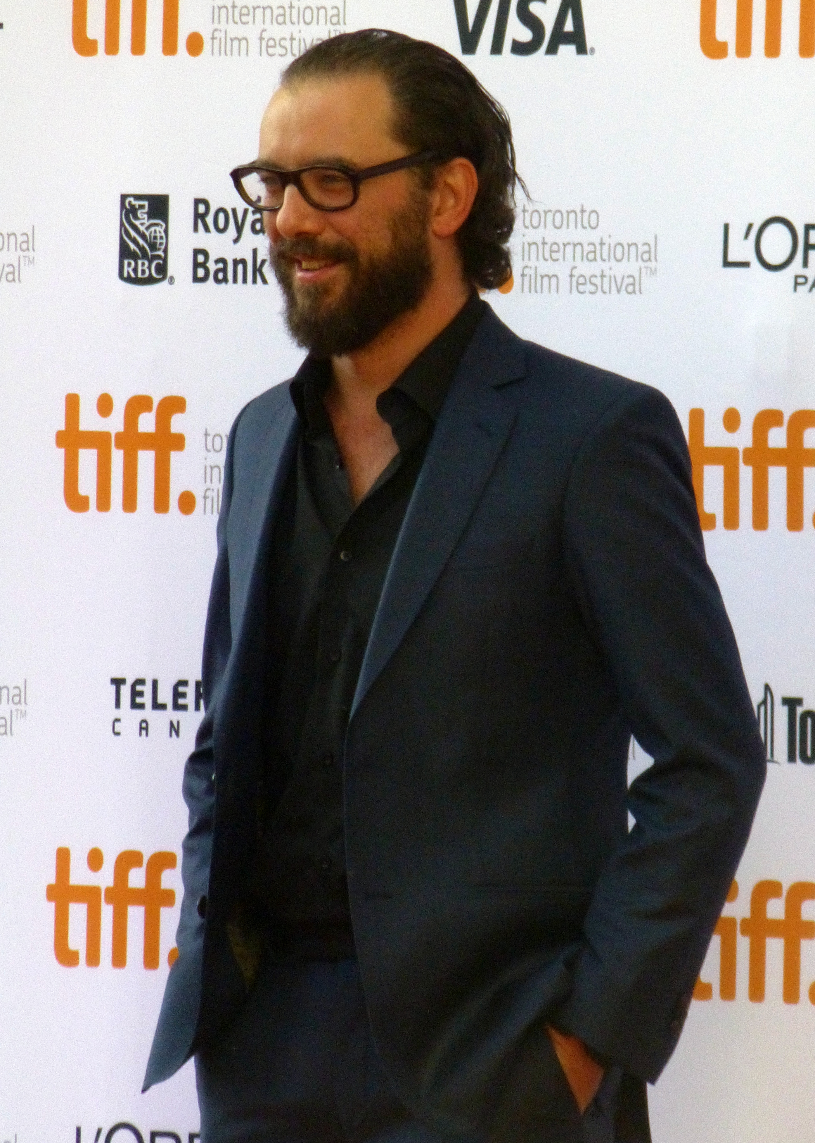 Michael R Roskam at the premiere of The Drop, 2014 Toronto Film Festival